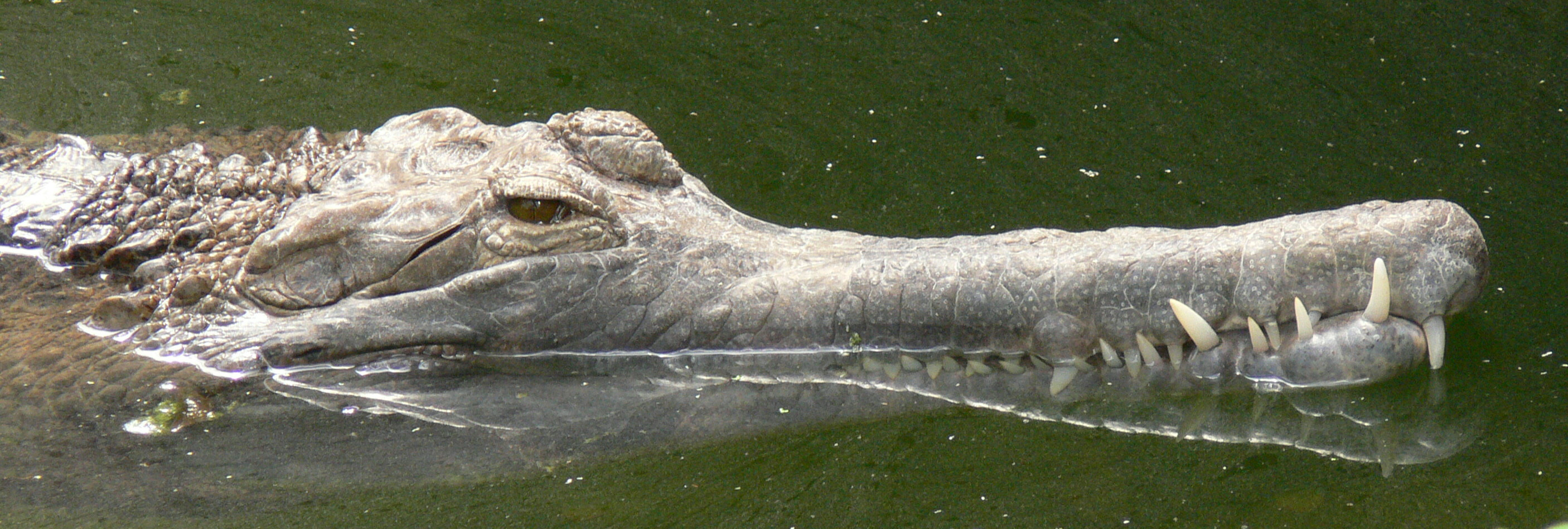 Tomistoma schlegelii taken at the Tierpark Berlin, Germany